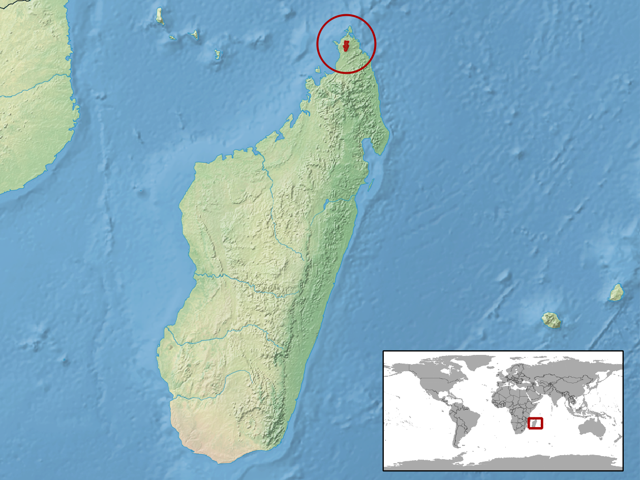 geographic distribution of Uroplatus finiavana (Native: Madagascar)